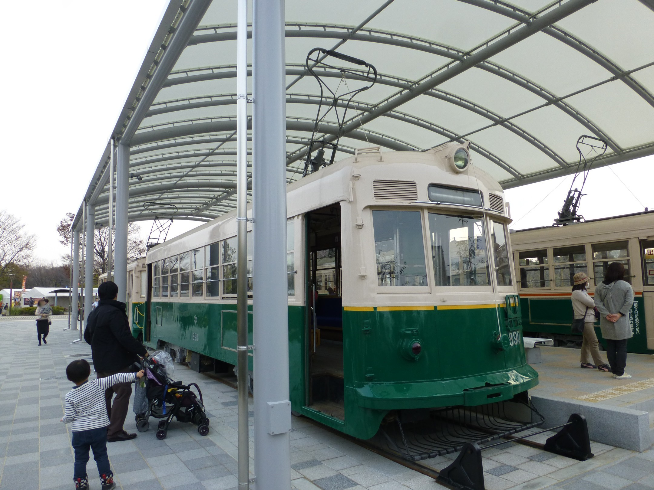 Kyoto Municipal Tramway 890 of type 800, preserved at Tramway Square in Umekoji Park.